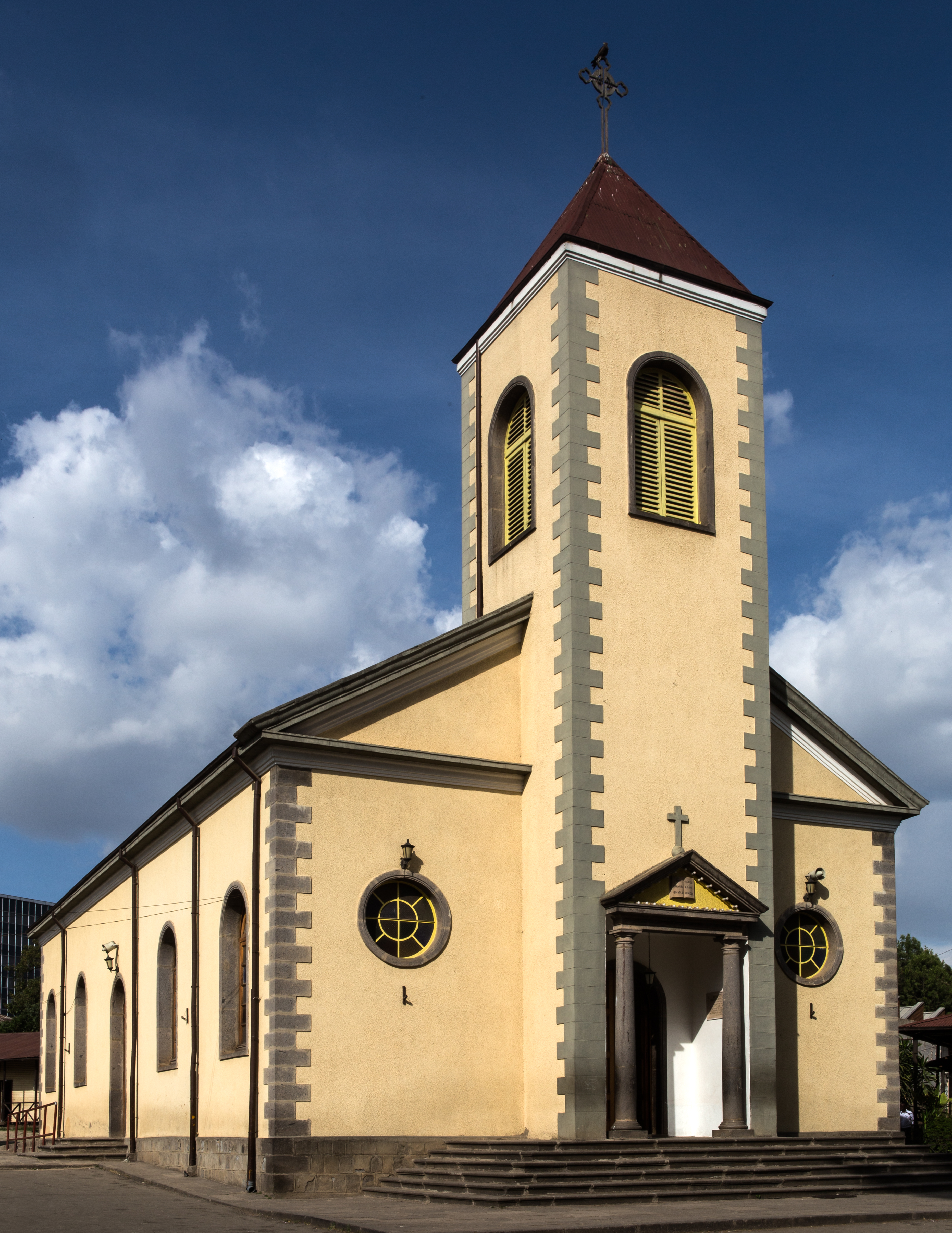 Amist Kilo Church, "mother church" of Ethiopian Evangelical Church Mekane Yesus.